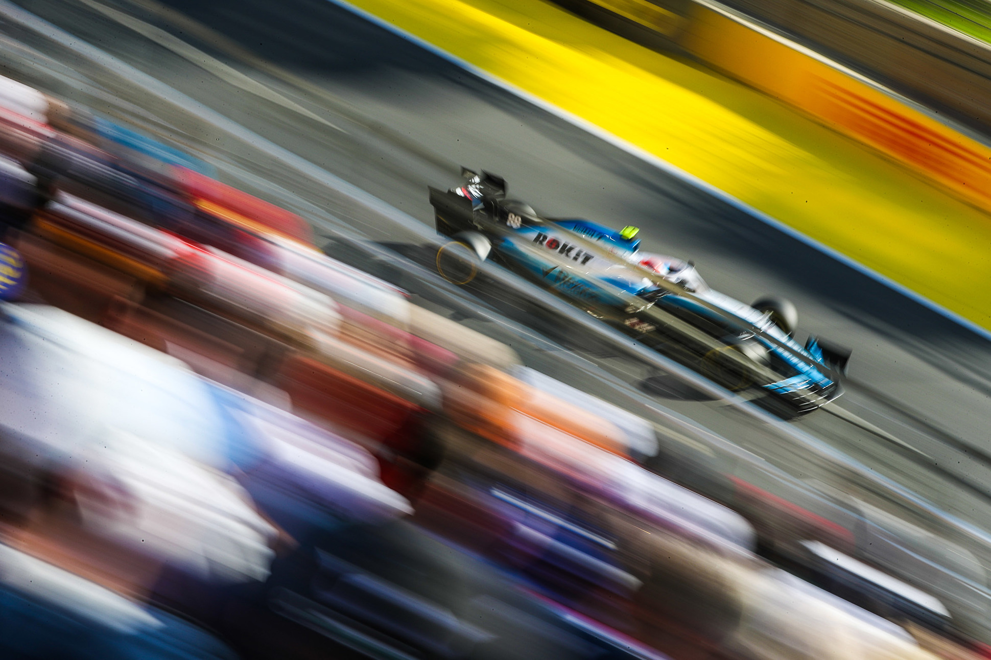 Ilham Aliyev watched the opening ceremony of the 2019 Formula-1 Azerbaijan Grand Prix and final race